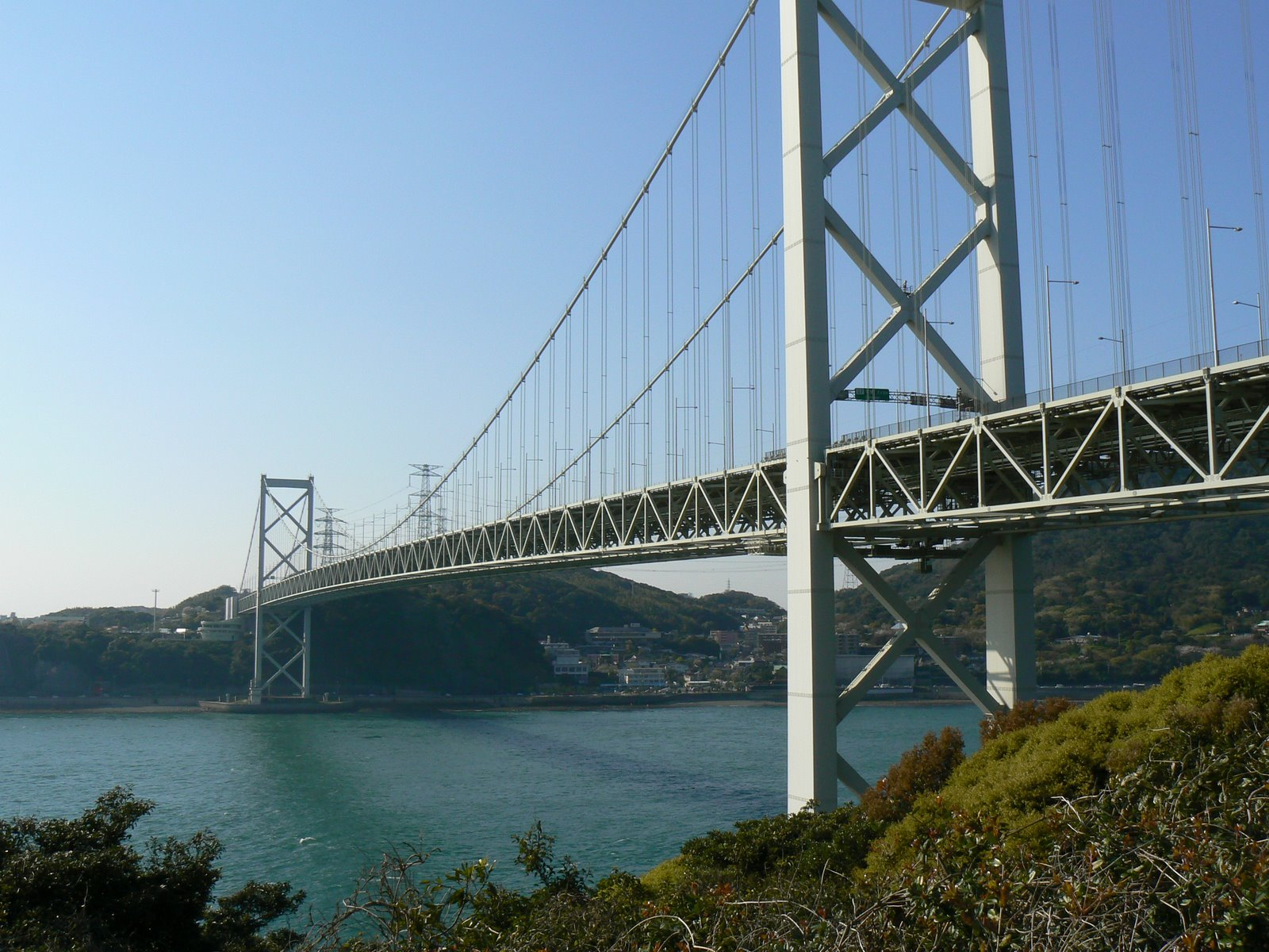 The Kanmonkyo Bridge is a suspension bridge crossing the Kanmon Straits in Japan